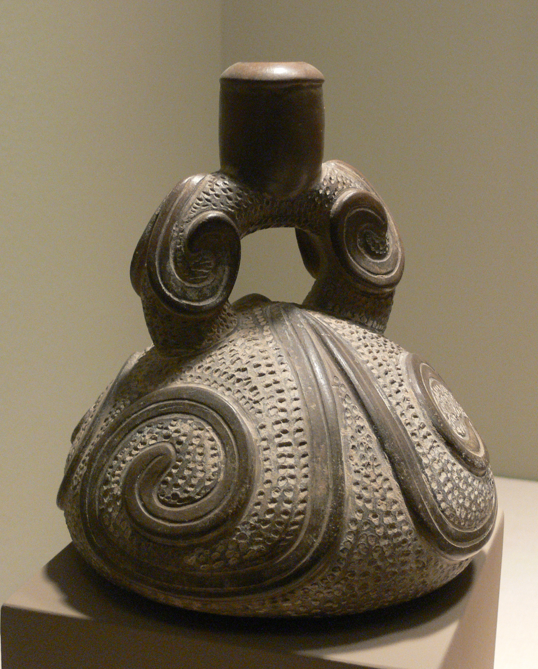 Stirrup-spout vessel with scroll ornament; Peru, Chavín style, c. 900-200 B.C.; height 18.4 cm, diameter 16.2 cm; Ceramic Dallas Museum of Art, Dallas, Texas; Dallas Art Association Purchase; object number 1970.3